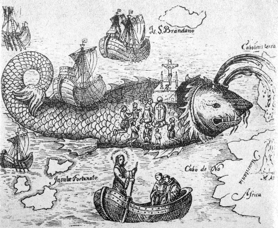 A woodcut which shows the scene from Navigatio Sancti Brendani Abbatis where the saint celebrates a mass on the body of a sea monster.